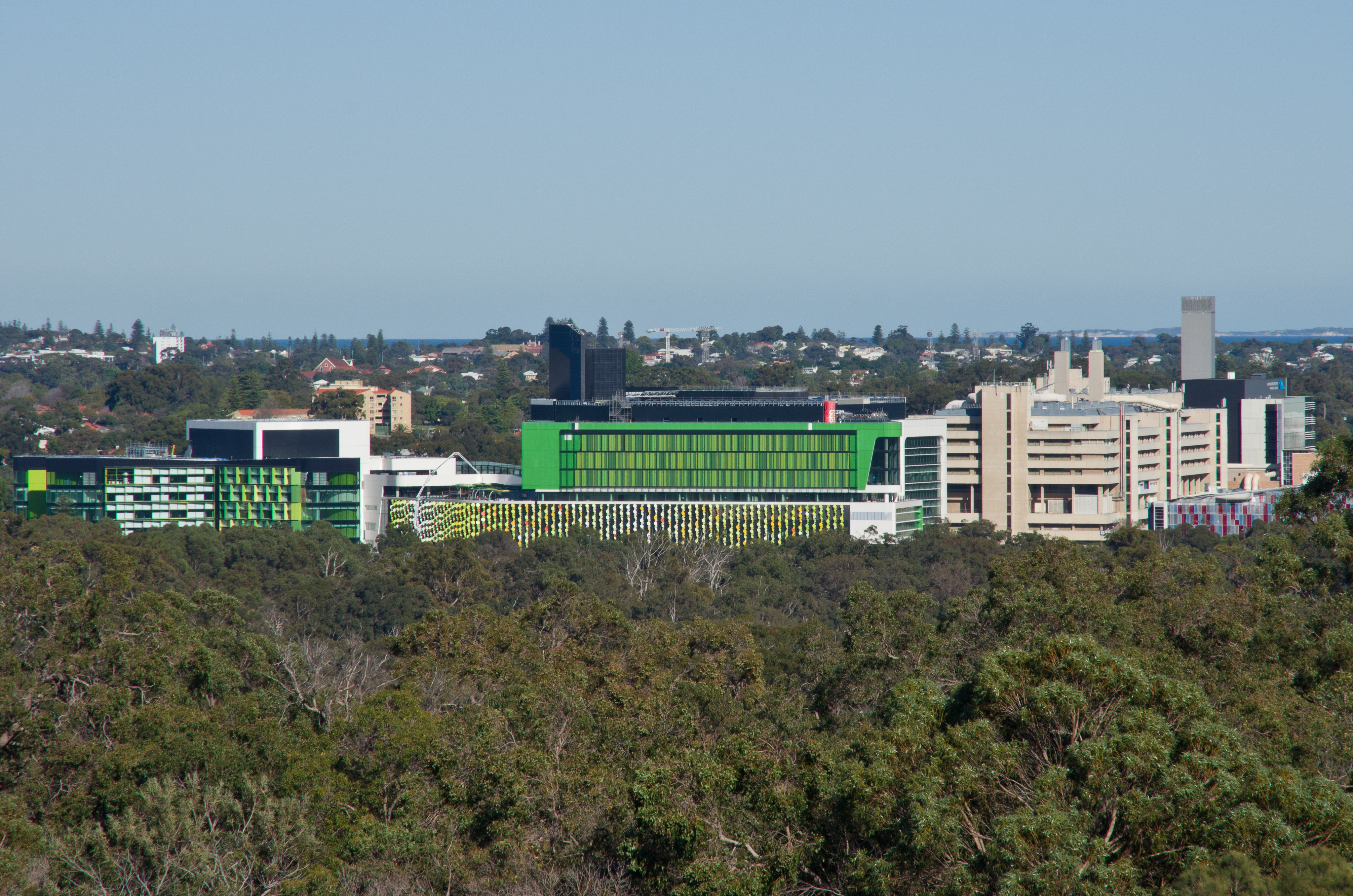 Kings Park, Western Australia QEII medical centre, new childrens hospital, viewed from the DNA Tower